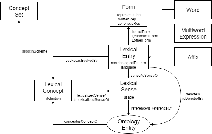 Class diagram of OntoLex-Lemon core concepts and properties